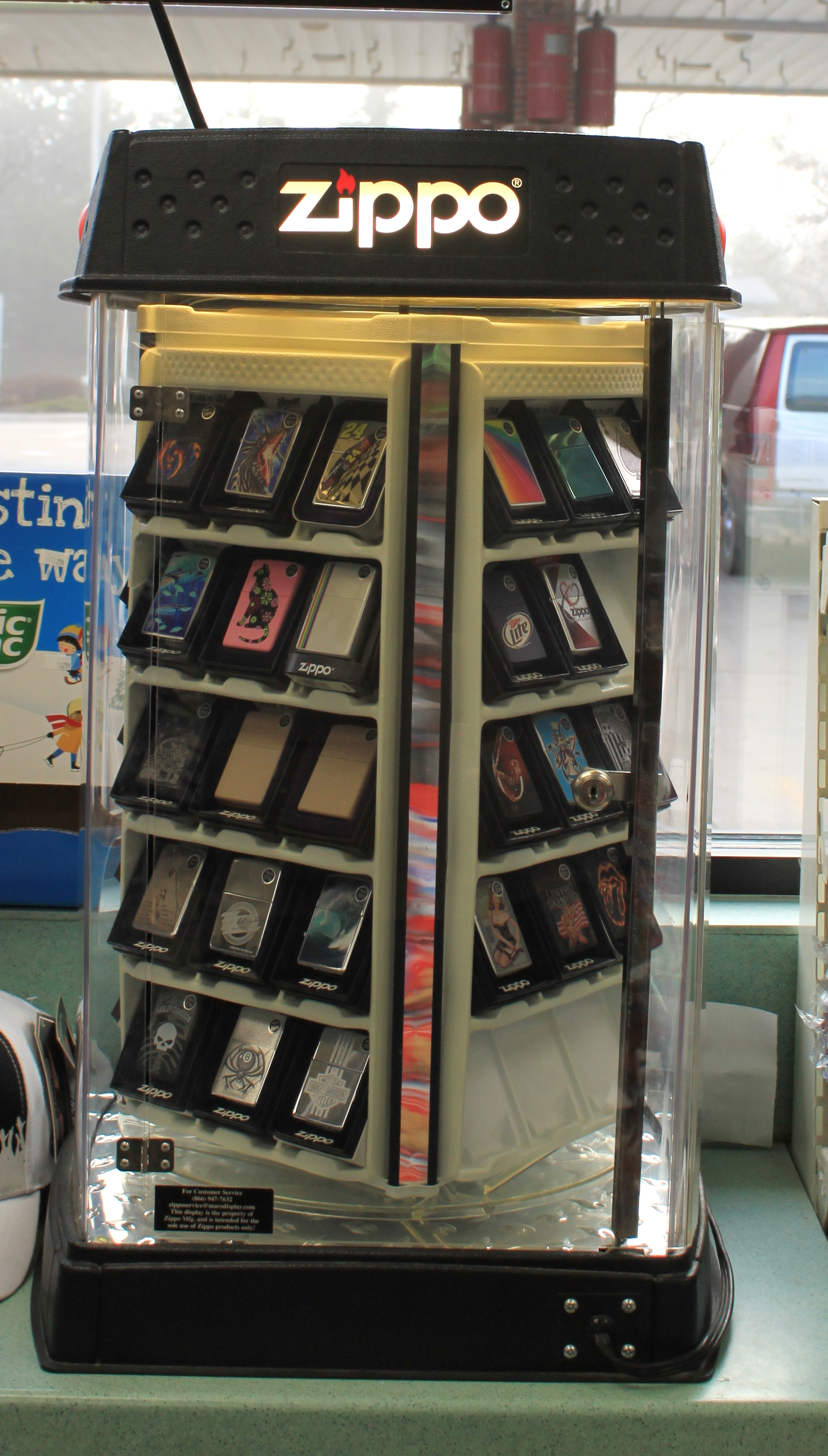 Zippo cigarette lighters point of sale display, BP service station convenience store, 47407 West Seven Mile Road, Northville, Michigan.